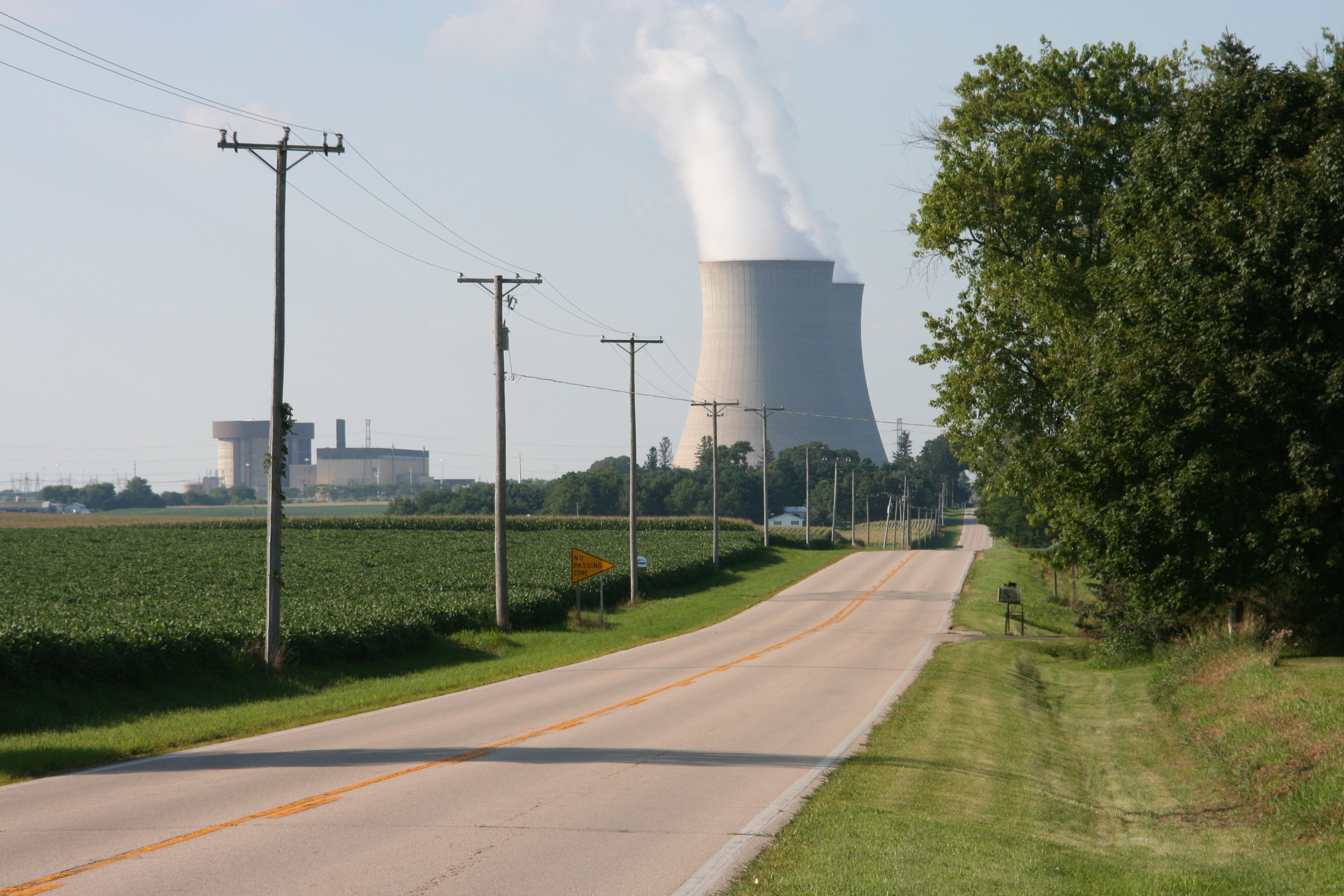 Byron Nuclear Generating Station just south of Byron, Illinois, USA.